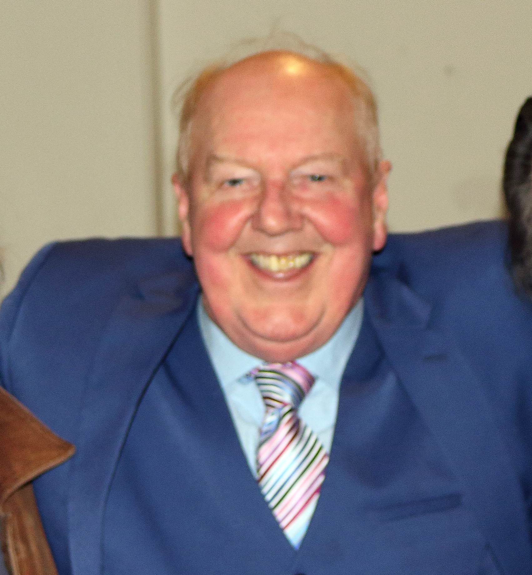 Jimmy Cricket and Ricky Tomlinson at an event in Liverpool in 2018